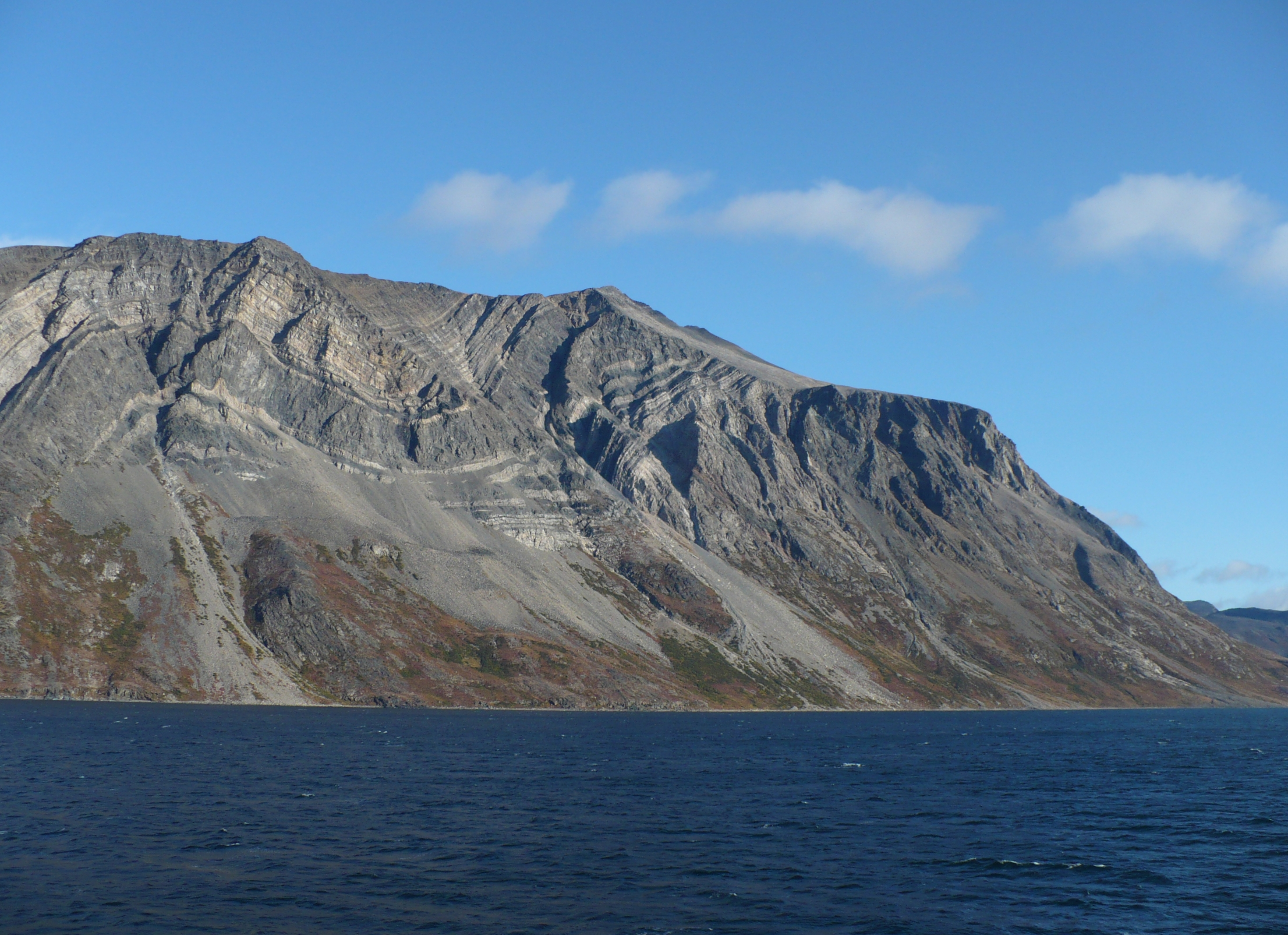 Near mouth of Saglek Fjord, Torngat Mountains National Park Reserve, Labrador, Canada. Extensive folding of rocks due to formation visible.